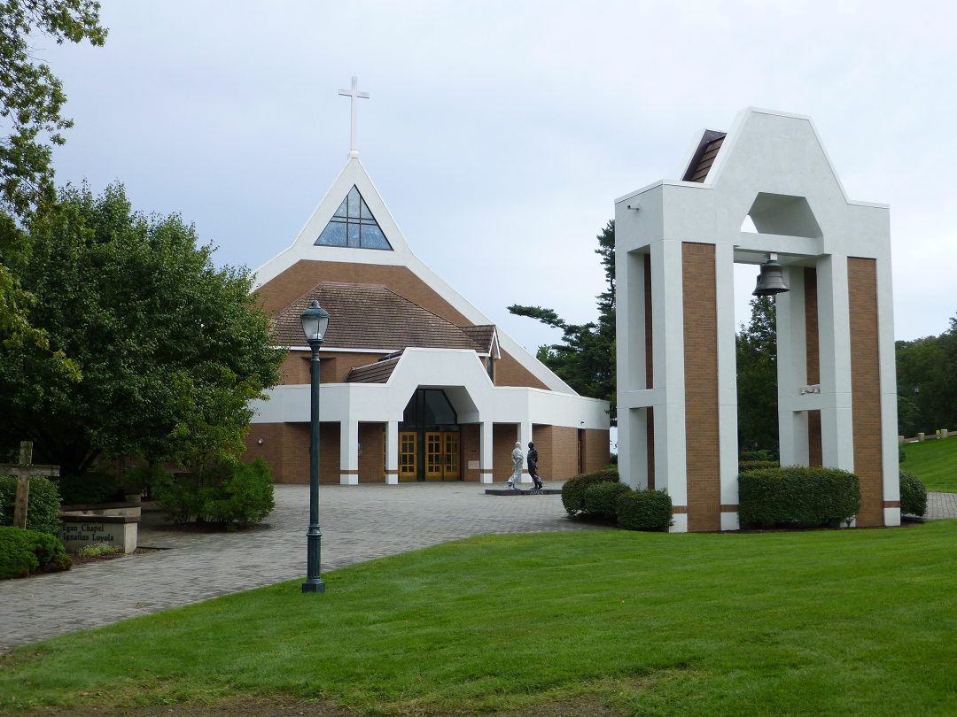 Left view of the Egan Chapel of St. Ignatius of Loyola at Fairfield University in Fairfield, Connecticut, USA.